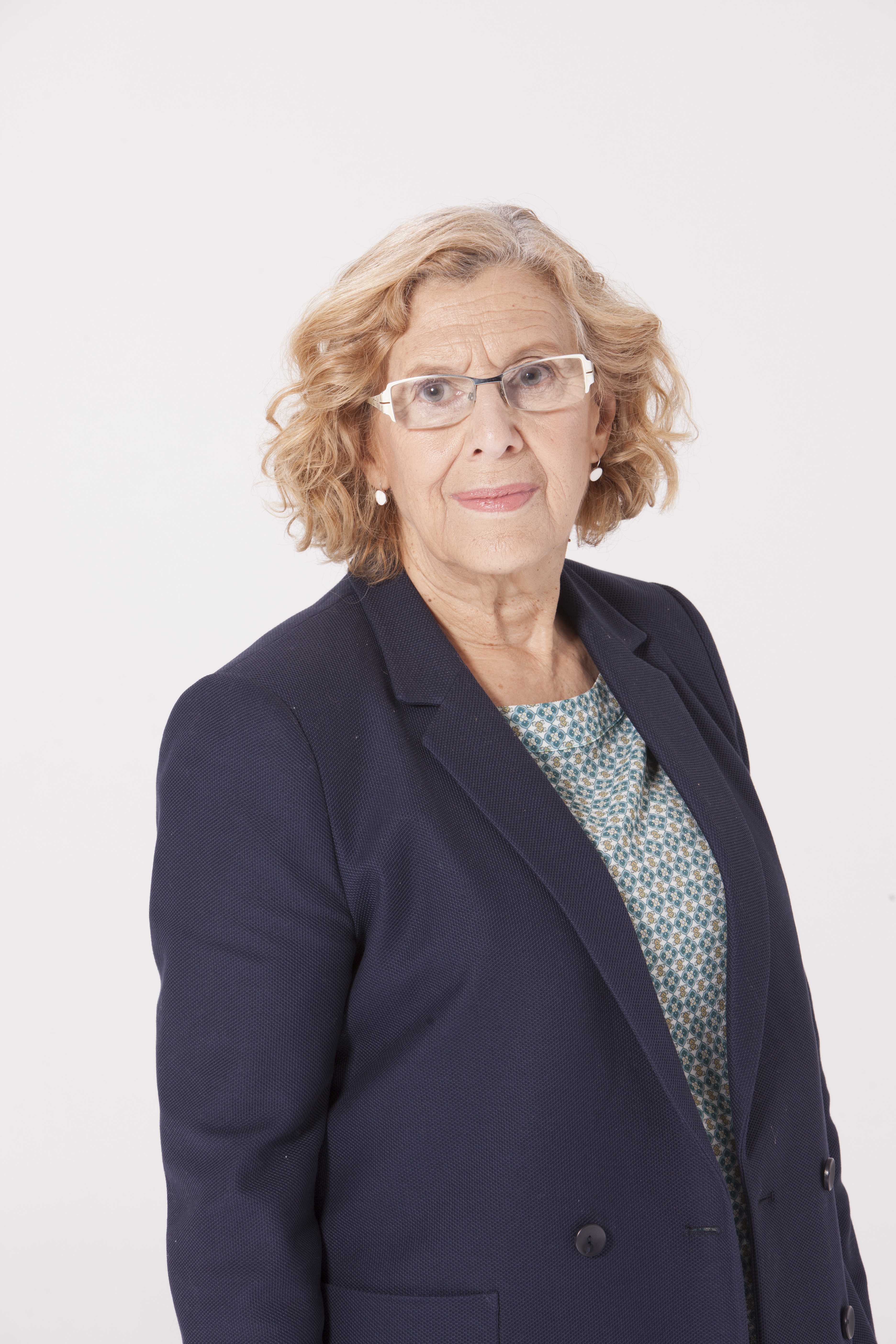 Manuela Carmena as candidate for major of Madrid with Ahora Madrid party.